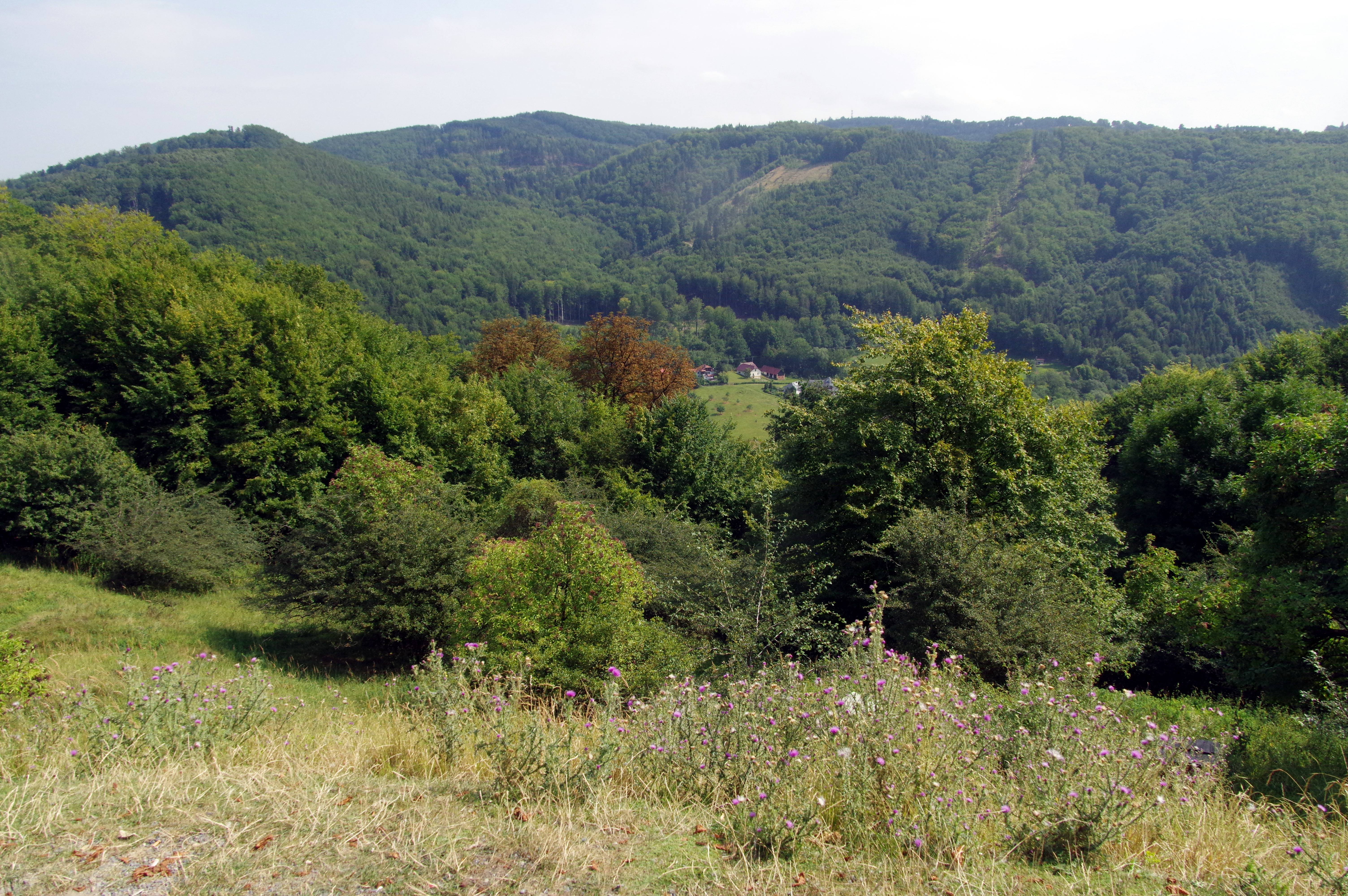 9.8.17 1 Hukvaldy and Leos Janacek 055